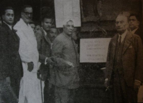 Inauguration of Silver Jubilee Hall of Carmichael Medical College by Sir Nilratan Sircar in 1941.